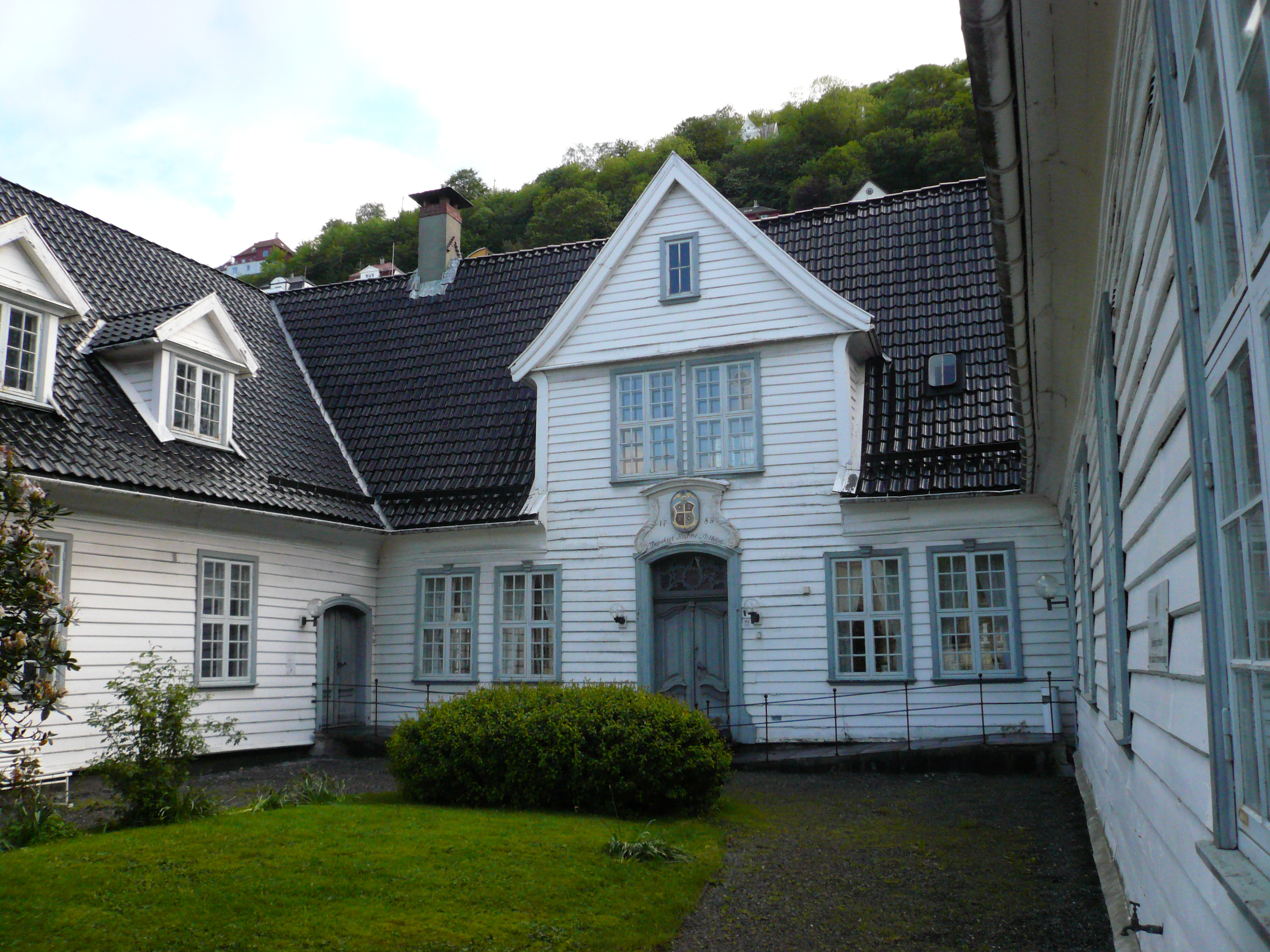 Danckert Krohn stiftelse (1789), Kongs Oscarsgate 54, Bergen, Norway.